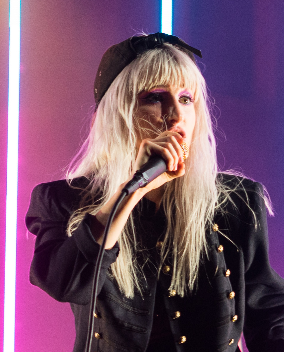 Paramore live concert at Royal Albert Hall, London, UK.